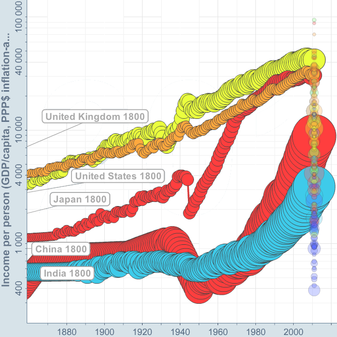 Per-capita inflation- and purchasing power parity-adjusted GDP and population (disk size), 1860-2011, for US (yellow), UK (orange), Japan (red), China (red), and India (blue).